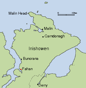 This map shows the location of Fahan on the peninsula Inishowen, County Donegal, Ireland. This map is my own work, based on Image:Topography Ireland.jpg and some utilities (Gimp and xfig). It is far from being perfect as the locations of the towns and the border line between Donegal and Derry have been drawn manually. In addition, the original image does not represent shore lines perfectly. Inch Island, for example, has joined the Inishowen peninsula. --AFBorchert 21:27, 20 January 2006 (UTC)